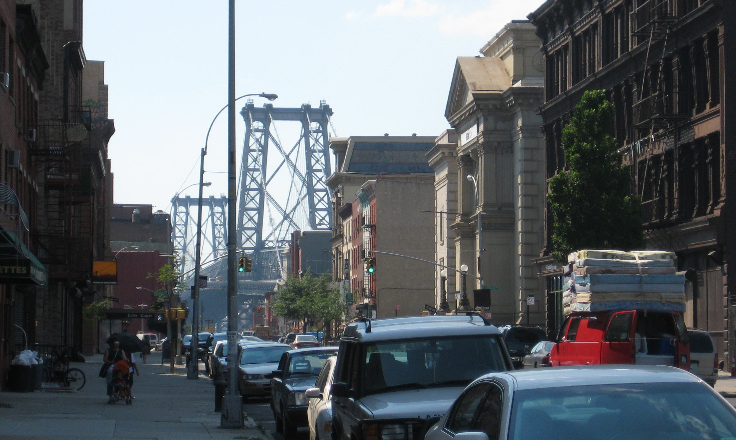 Looking west along western Broadway at the Williamsburg Bridge, Brooklyn.